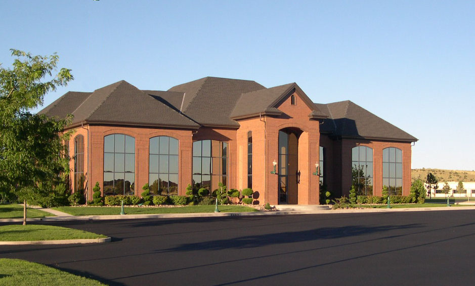 Iron County School District office located at 2077 W Royal Hunte Dr, Cedar City, Utah.